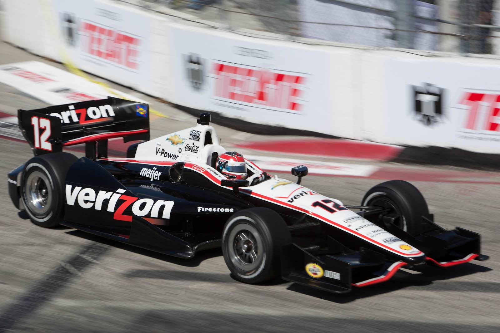 Will Power, winner of the 2012 Toyota Grand Prix of Long Beach.